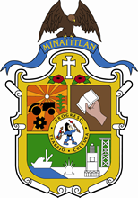 Escudo de Minatitlán, Ver. México.